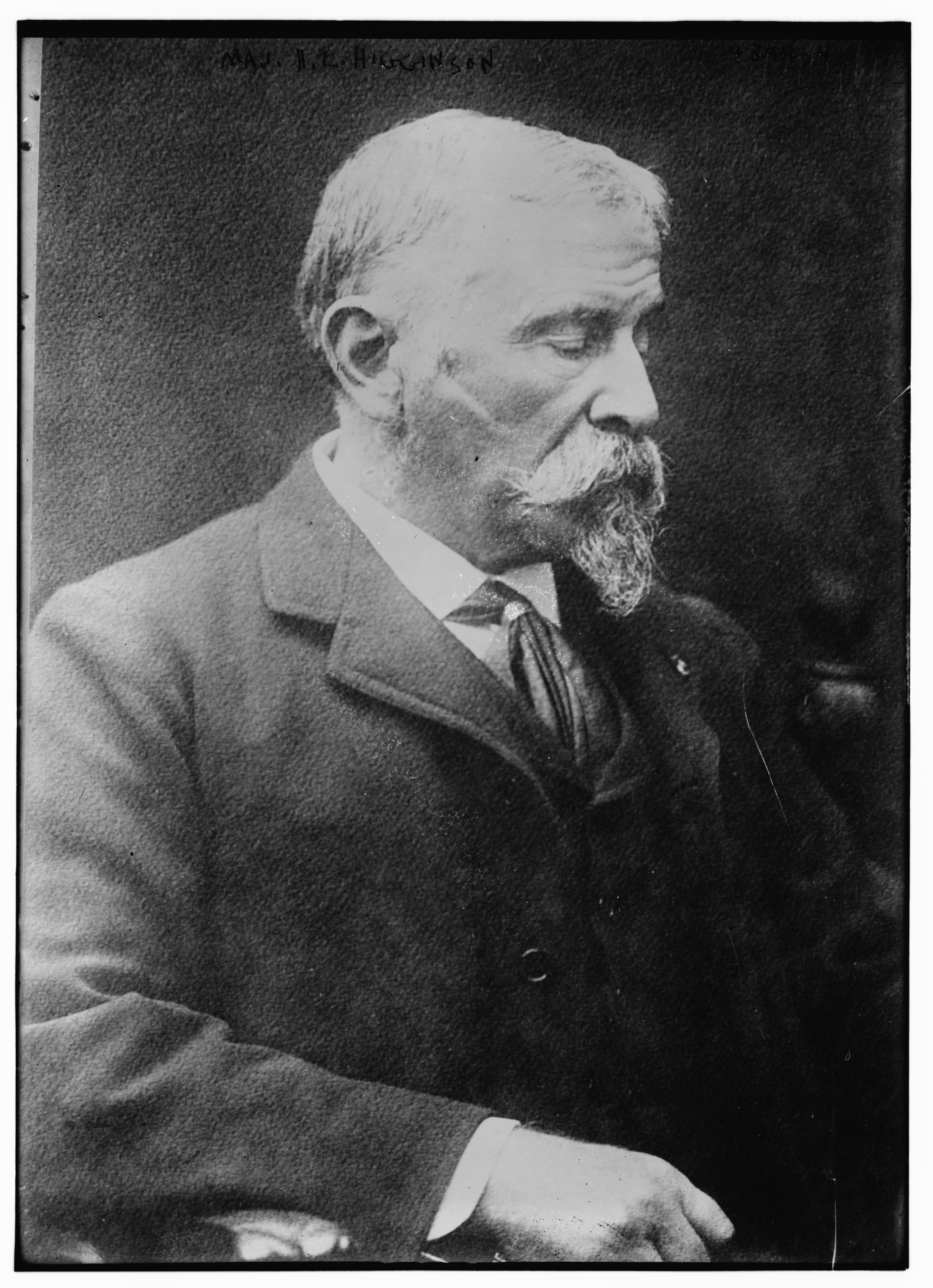 Henry Lee Higginson in 1917